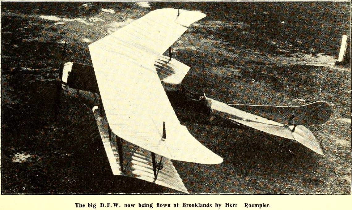 Deutsche Flugzeug-Werke Mars aircraft, biplane version